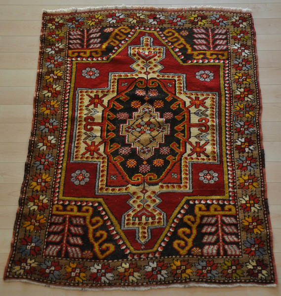 Central Anatolian Ortakoy Region Rug. CL Lane Collection Photo: Jan Cadoret